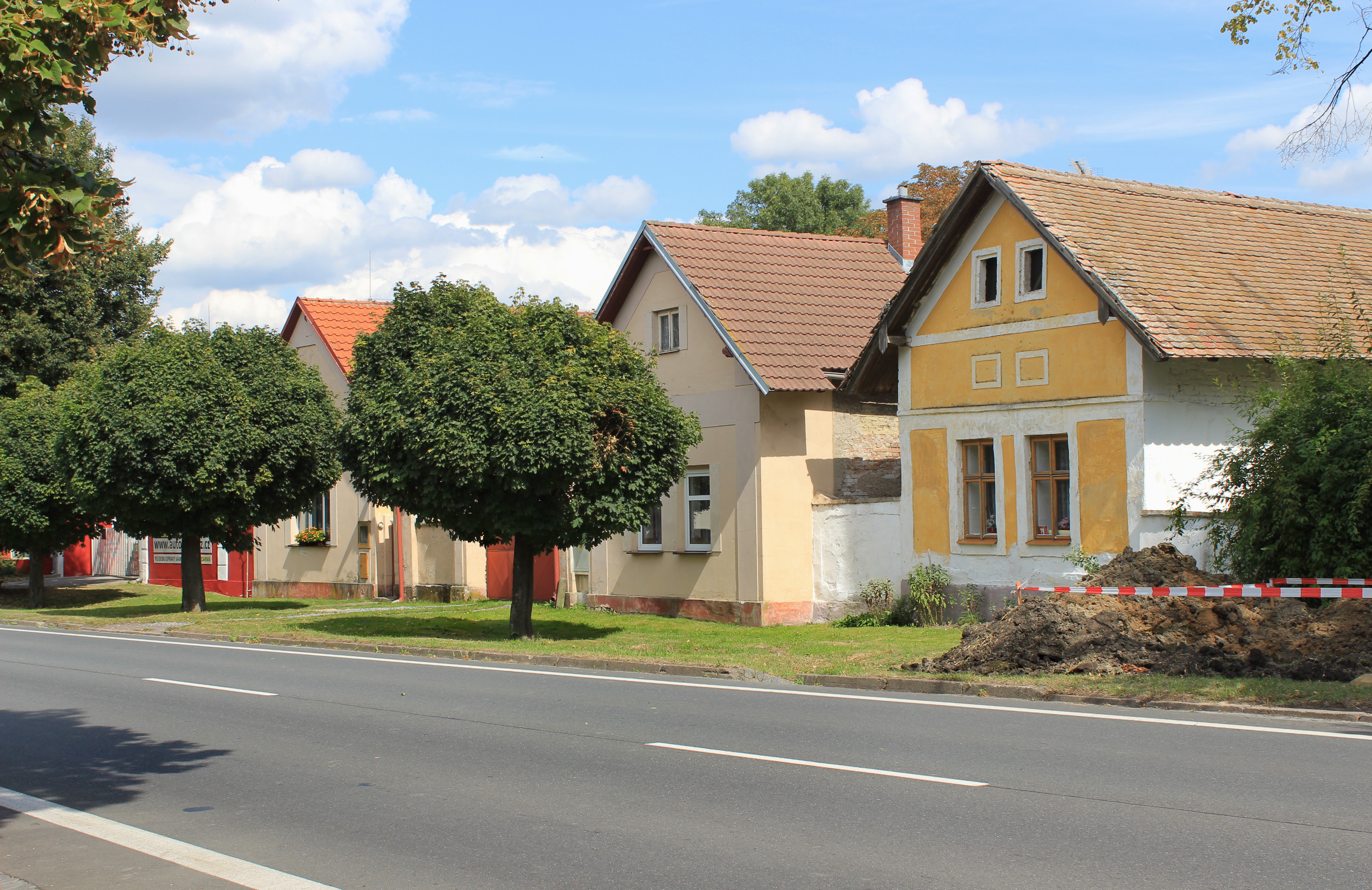 Houses No. 75 and 79 in Senice, Czech Republic.